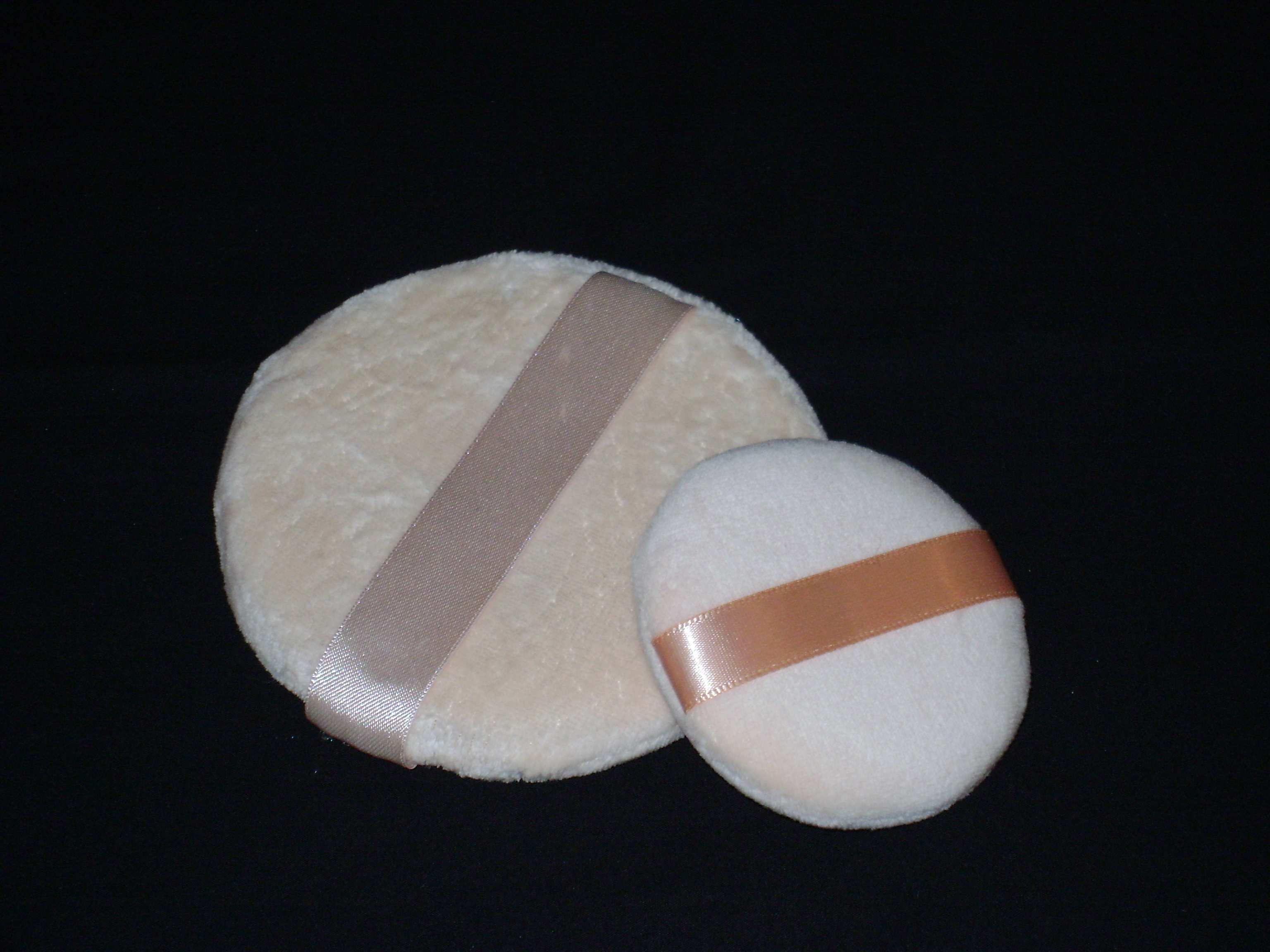 Puff used in makeup for applying cosmetic powder